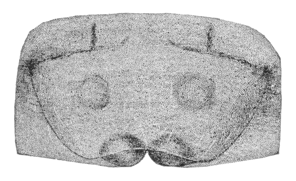 Epigyne of Zygoballus sexpunctatus jumping spider